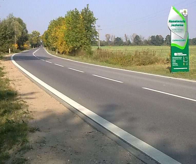 Voivodeship road DW 724, Konstancin-Jeziorna